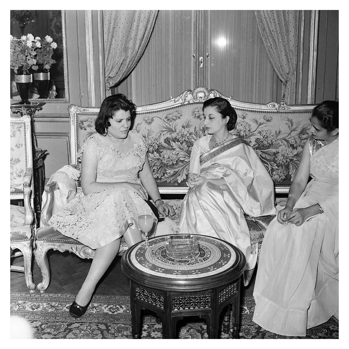 Abdel Nasser holds a dinner for Ali Yavar Jung, the Indian Ambassador in Cairo